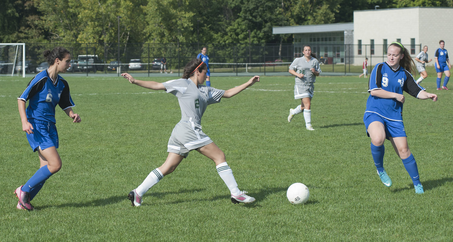 Women's soccer action at Hudson Valley Community College